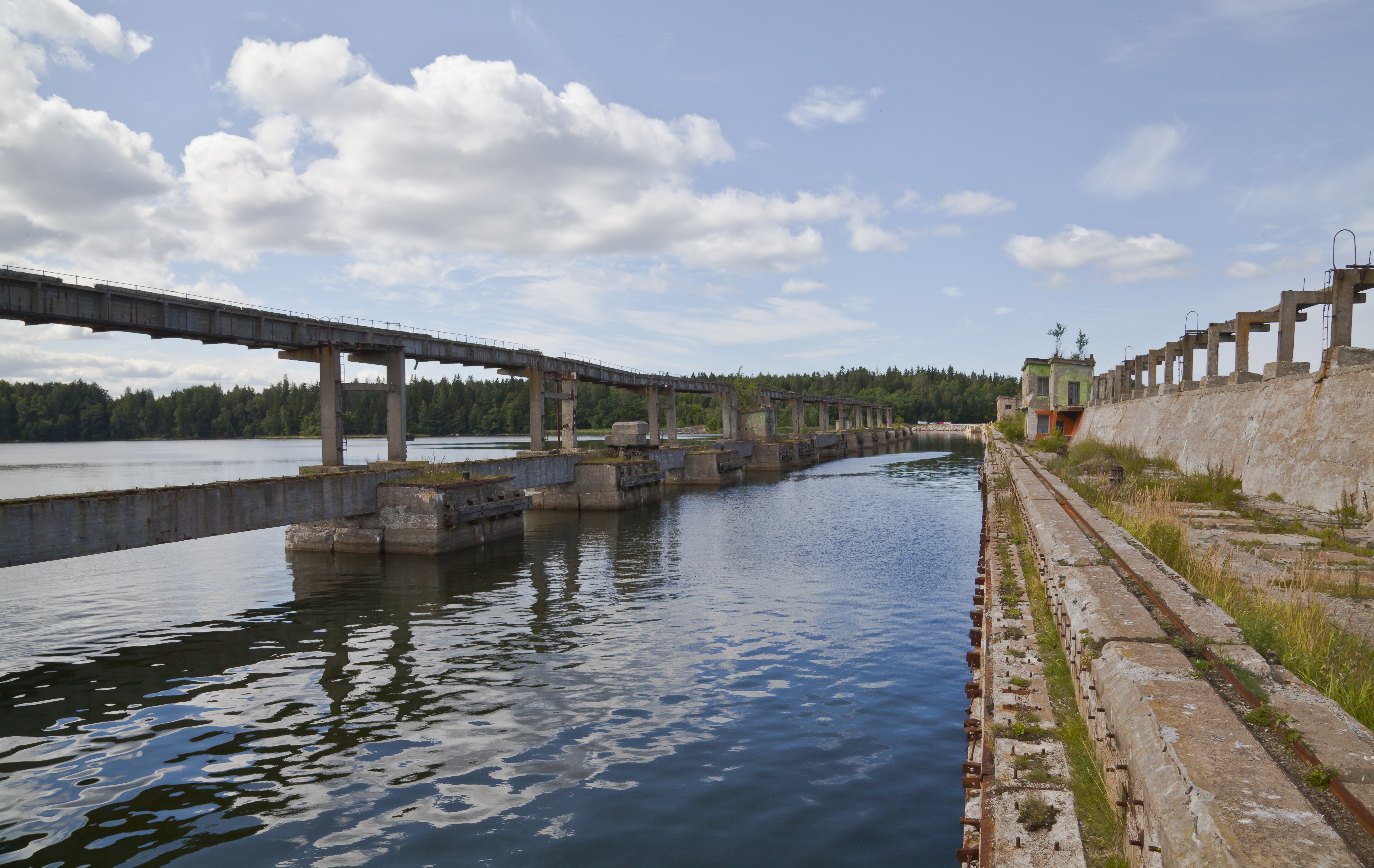 Former soviet submarine base, Lahemaa National Park, Estonia